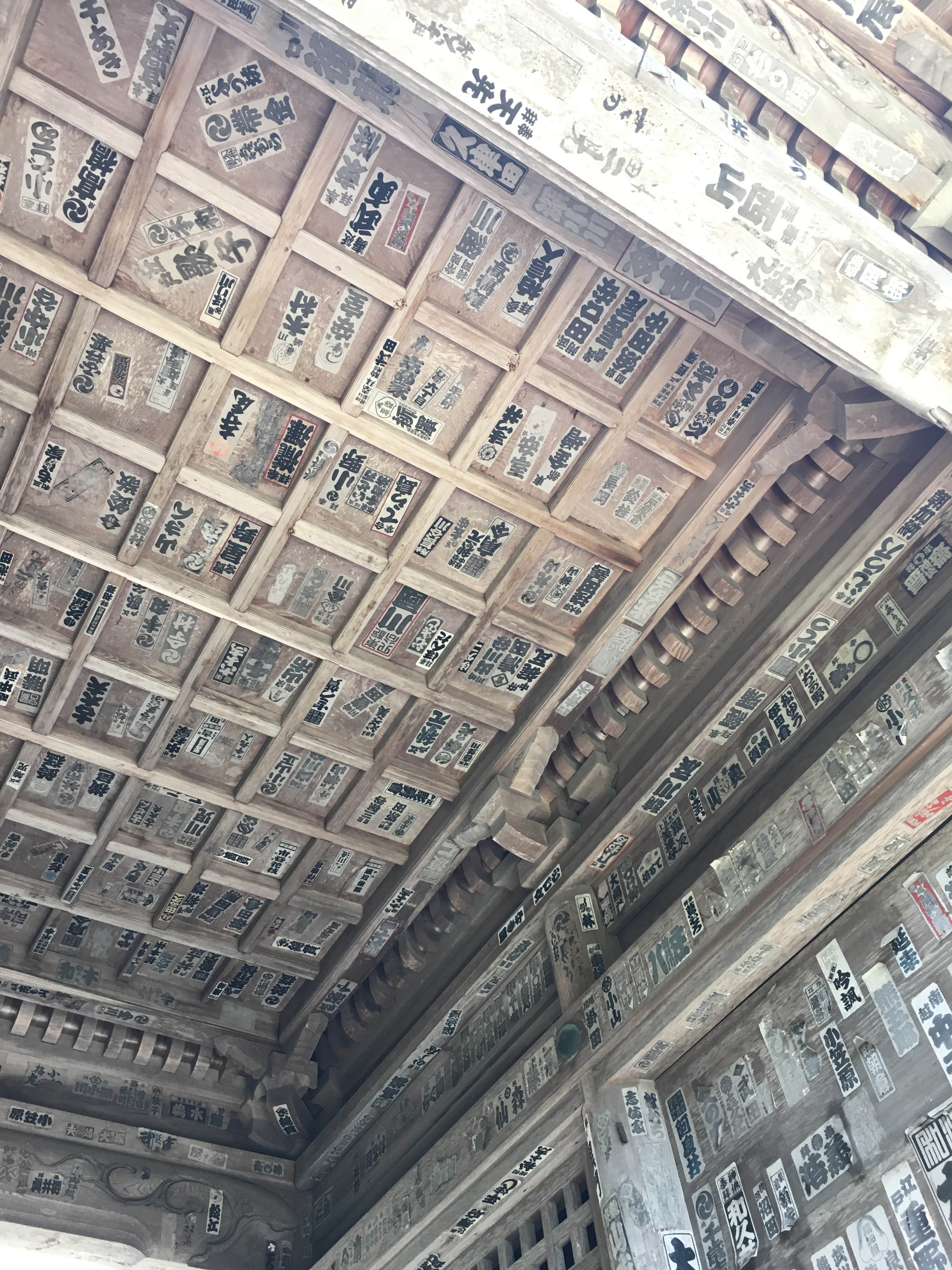 Senjafuda at Niōmon gate of Risshaku-ji temple (Yama-dera) in Yamagata-shi, Yamagata Prefecture